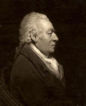 Portrait of the architect James Wyatt 1746-1813.